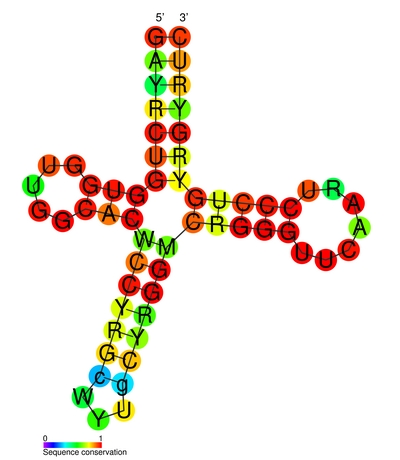 This image shows a consensus secondary structure for a ncRNA family called mascRNA-menRNA. The colouring gives an indication of the sequence conservation.